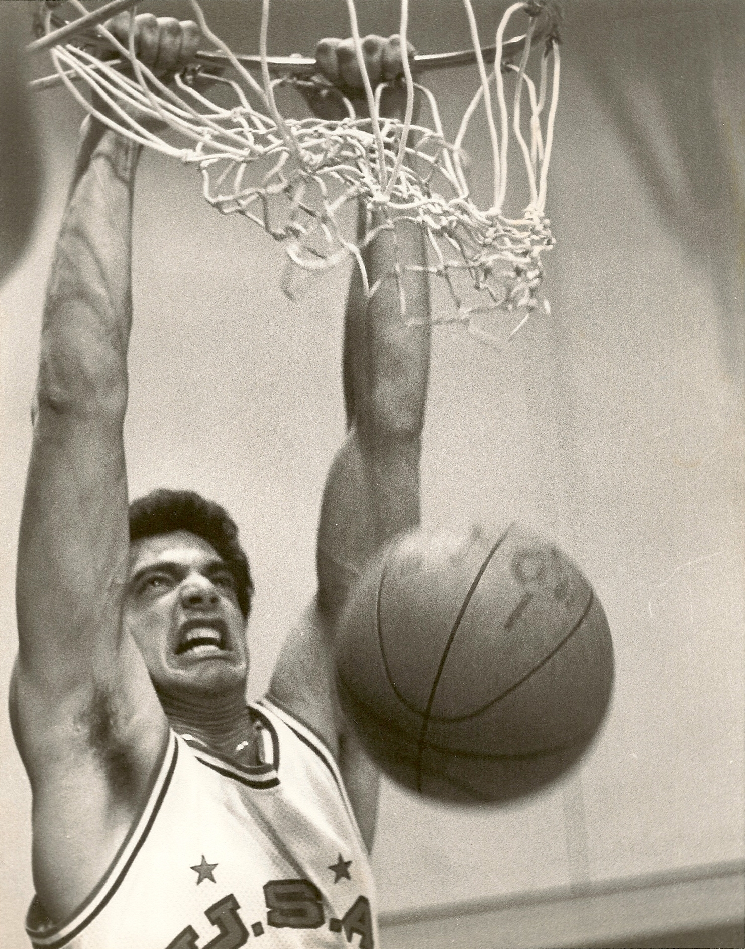 Chris Roupas, 1982 USA-AHEPA Allstar Dunk.